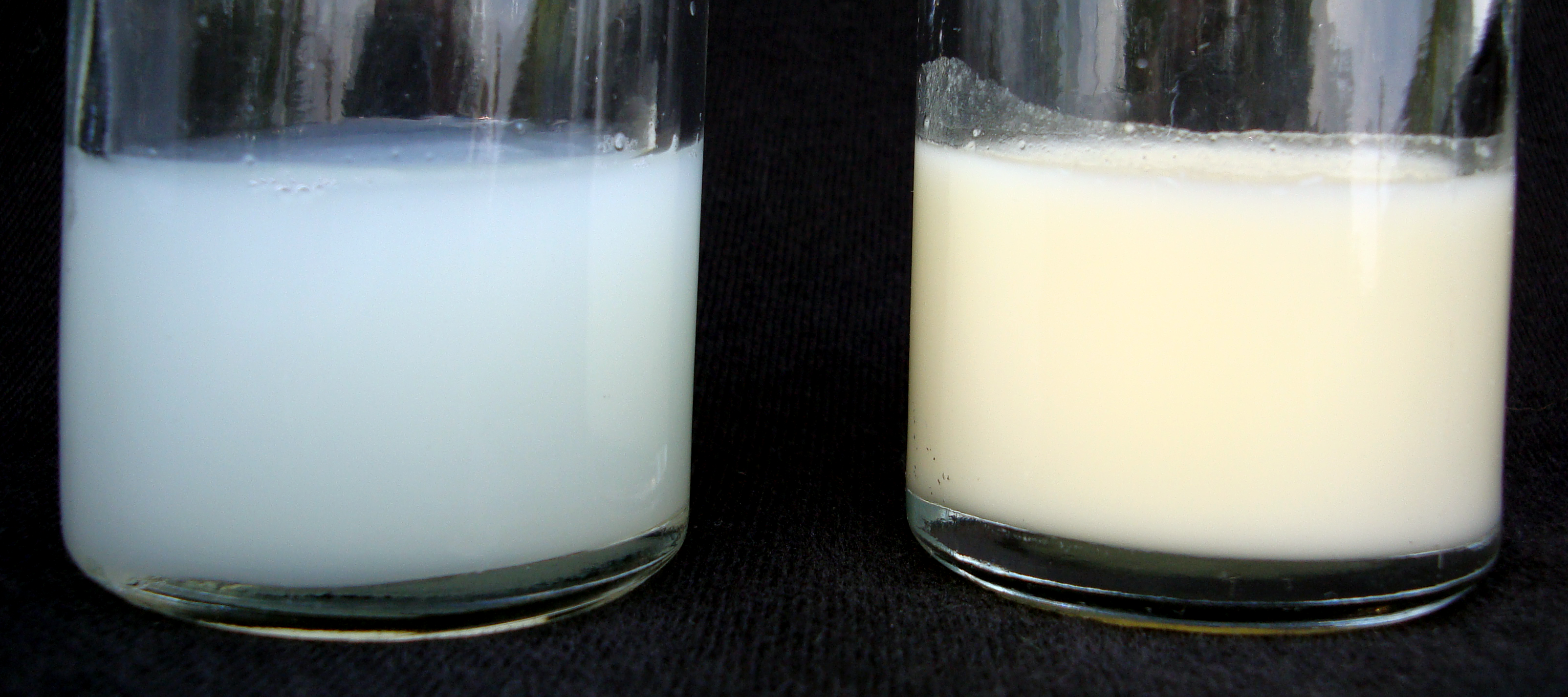 Two 25ml samples of human breast milk pumped from the same woman, at the same time to illustrate what human breast milk looks like, and how human breast milk can vary. The left hand sample is Foremilk, the first milk coming from a full breast. Foremilk has a higher water content and a lower fat content to satisfy thirst. The right hand sample is Hindmilk, the last milk coming from a nearly empty breast. Hindmilk has a lower water content and a higher fat content to satisfy hunger. [1] As breastmilk is made continuously including during the feed itself, the milk can switch between Foremilk and Hindmilk until the baby has had enough.